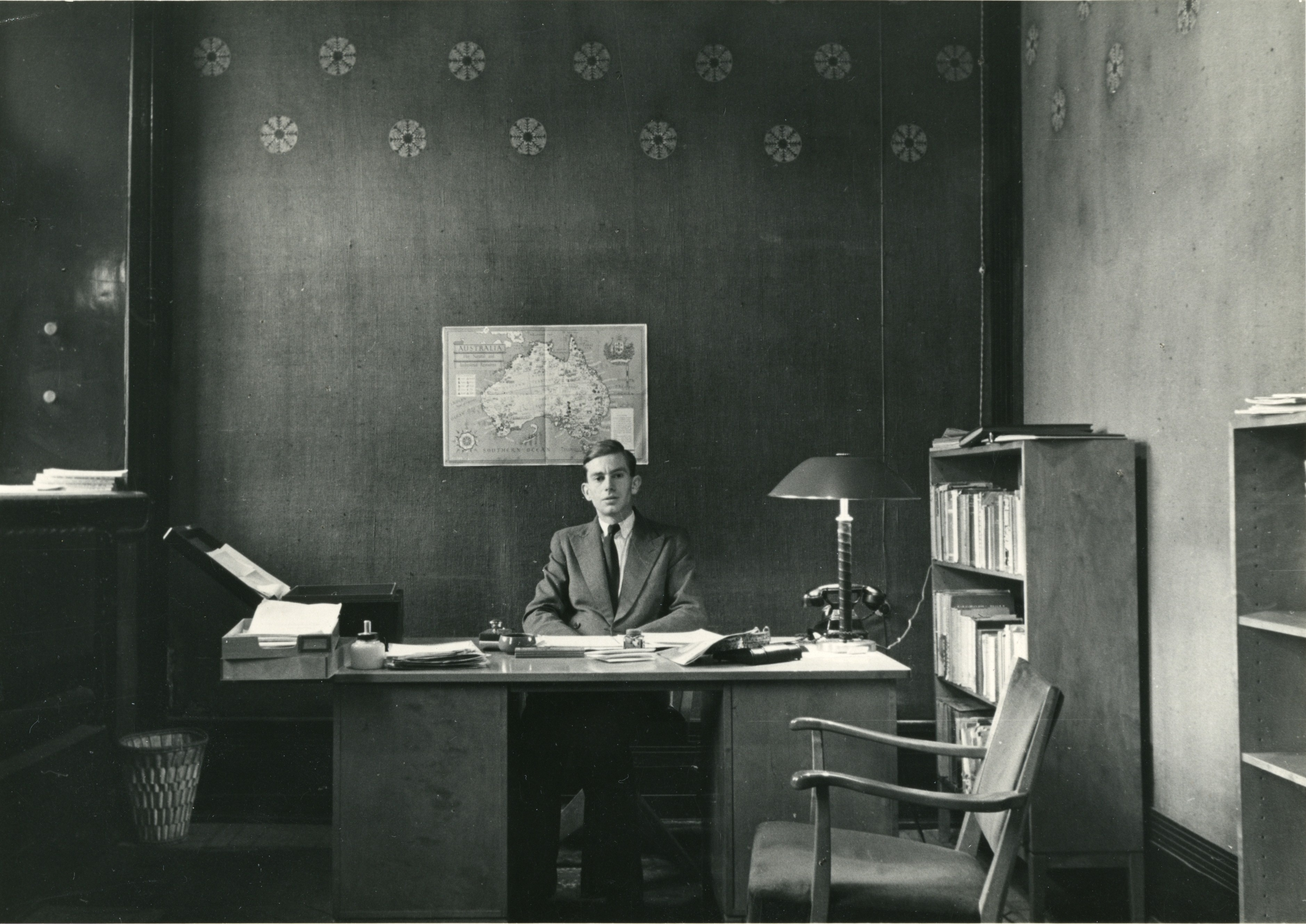 Mr John Russell Rowland, in his office, 1948. Mr Rowland was Third Secretary, Australian Legation, Moscow, 1946–1948.